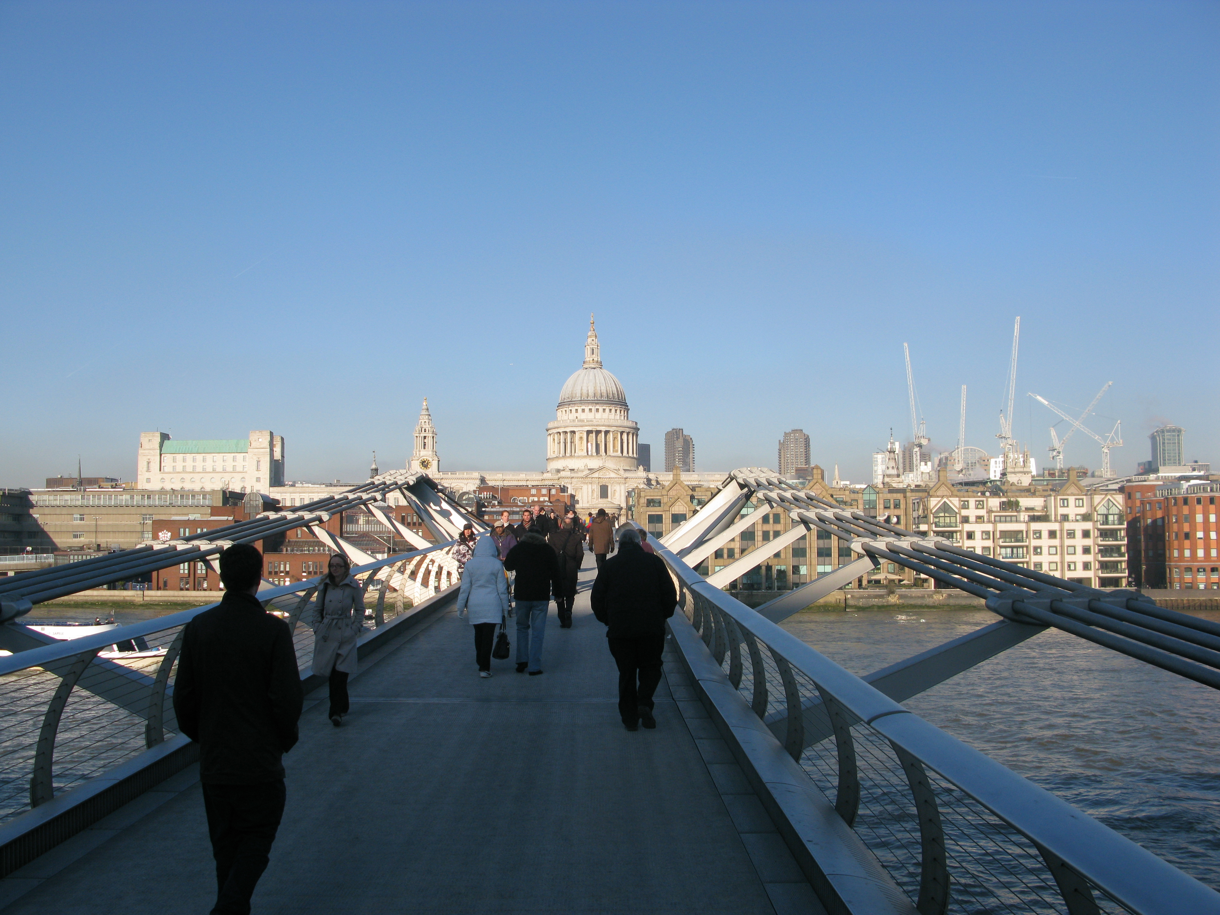 The Millennium Bridge, London, Great Britain, facing St. Paul's Cathedral.